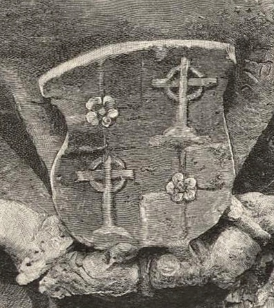 Kloster Limburg, Wappenstein des Abtes Apollo von Vilbel, am Sommerrefektorium; Holzschnitt von Adolph Closs